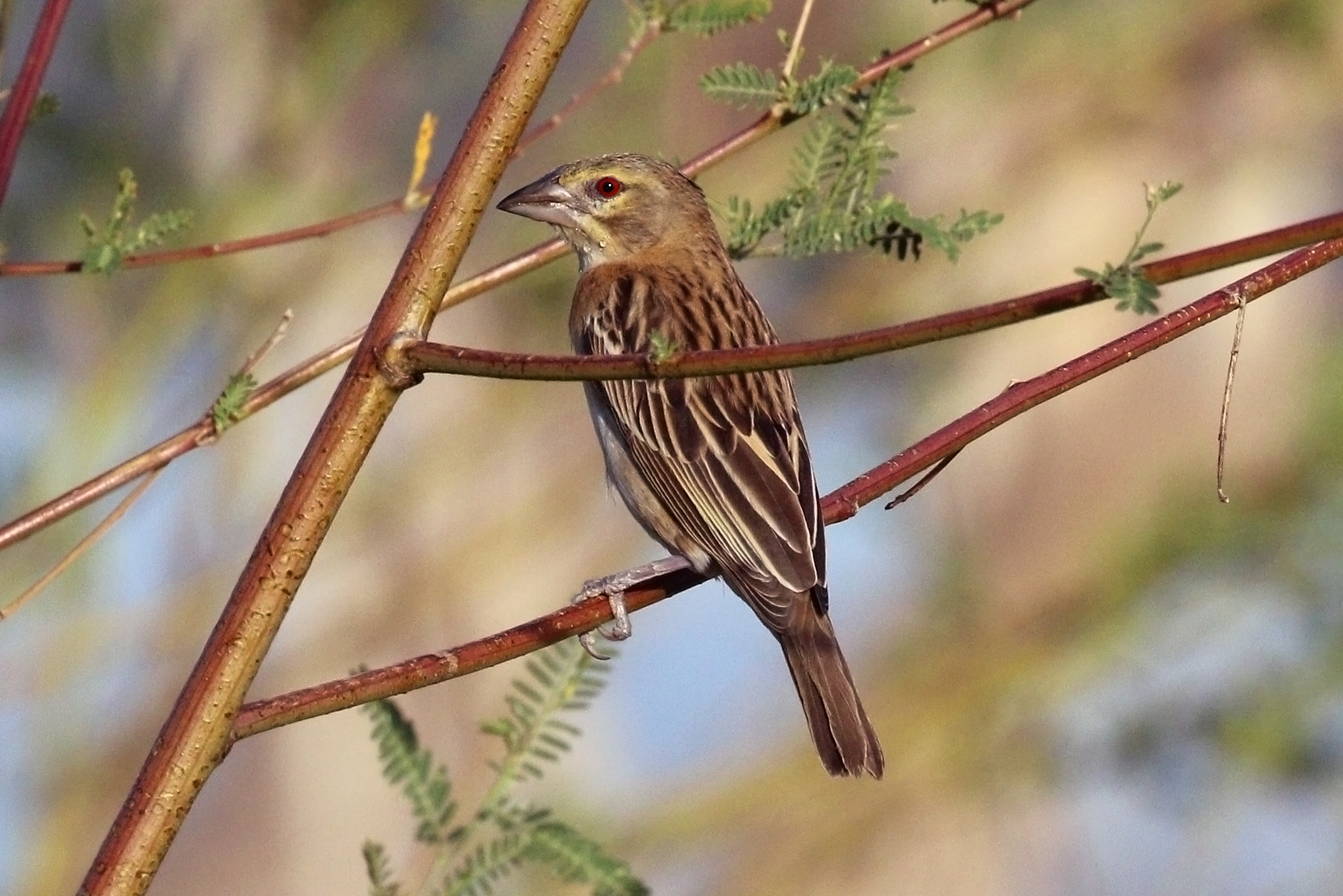 Chestnet weaver (Ploceus rubiginosus) female, Lake Baringo, Kenya